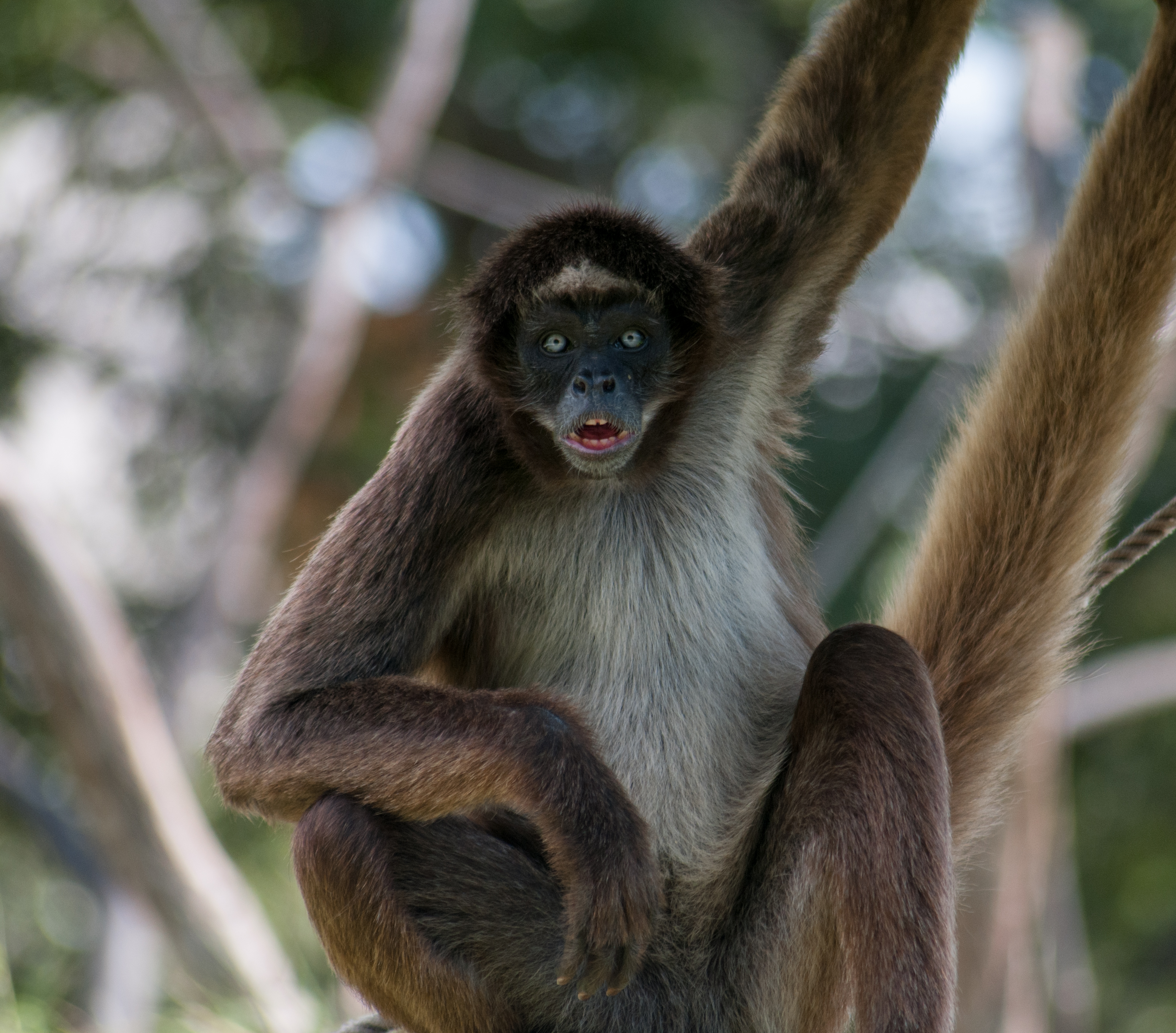 Ateles hybridus from Barquisimeto Zoo, Venezuela